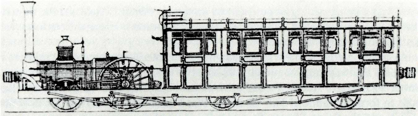 Steam railmotor Enfield, built at the Fairfield Locomotive Works of William Bridges Adams in Bow, England, in 1849 (Note the flanges on the outer wheels only – image from contemporary magazine)